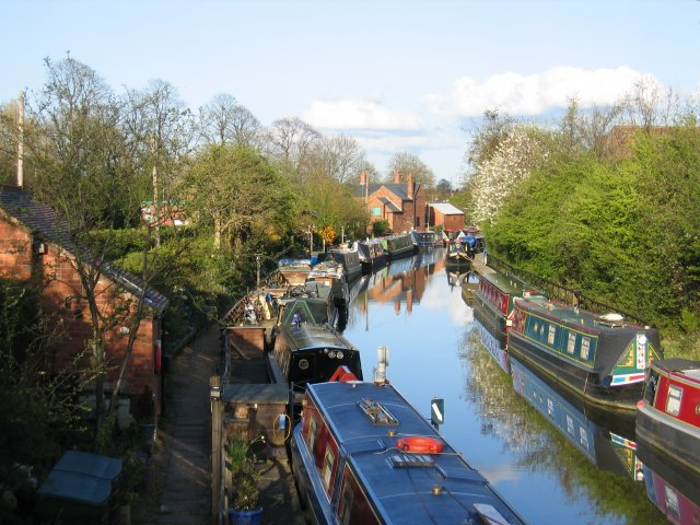 Saltisford Arm, Warwick. This length of canal once led to the terminus of the Warwick and Birmingham canal. With the coming of the Warwick and Napton canal, latterly the Grand Union Canal, it became a derelict appendage. In recent years much of this length has been restored, and is maintained by a canal trust. As can be seen it now provides a secluded mooring space for many narrowboats.